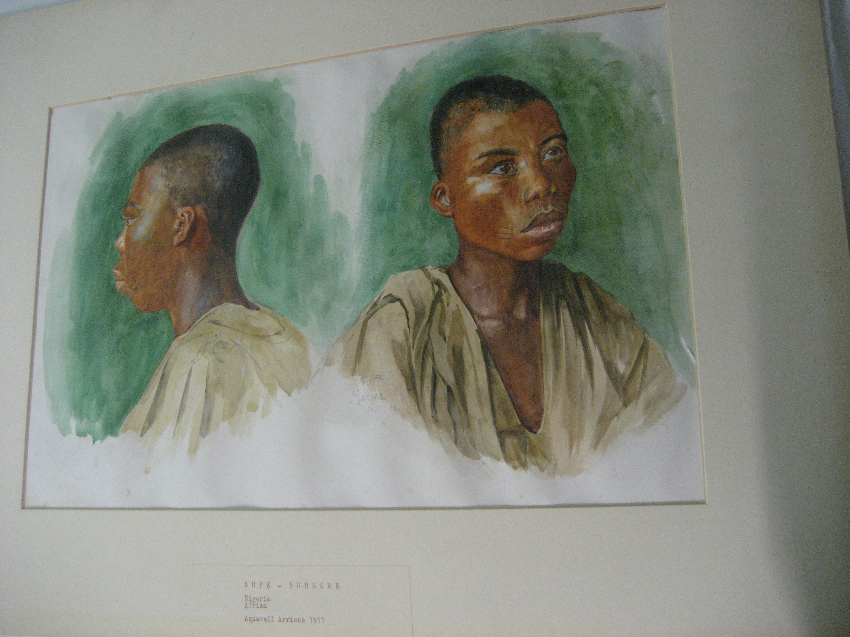 Nupe boy (Nigeria, Q97356967). Drawing by C.A. = Carl Arriens (1869-c.1930). Collection Frobenius Institute, Frankfurt am Main (Germany)